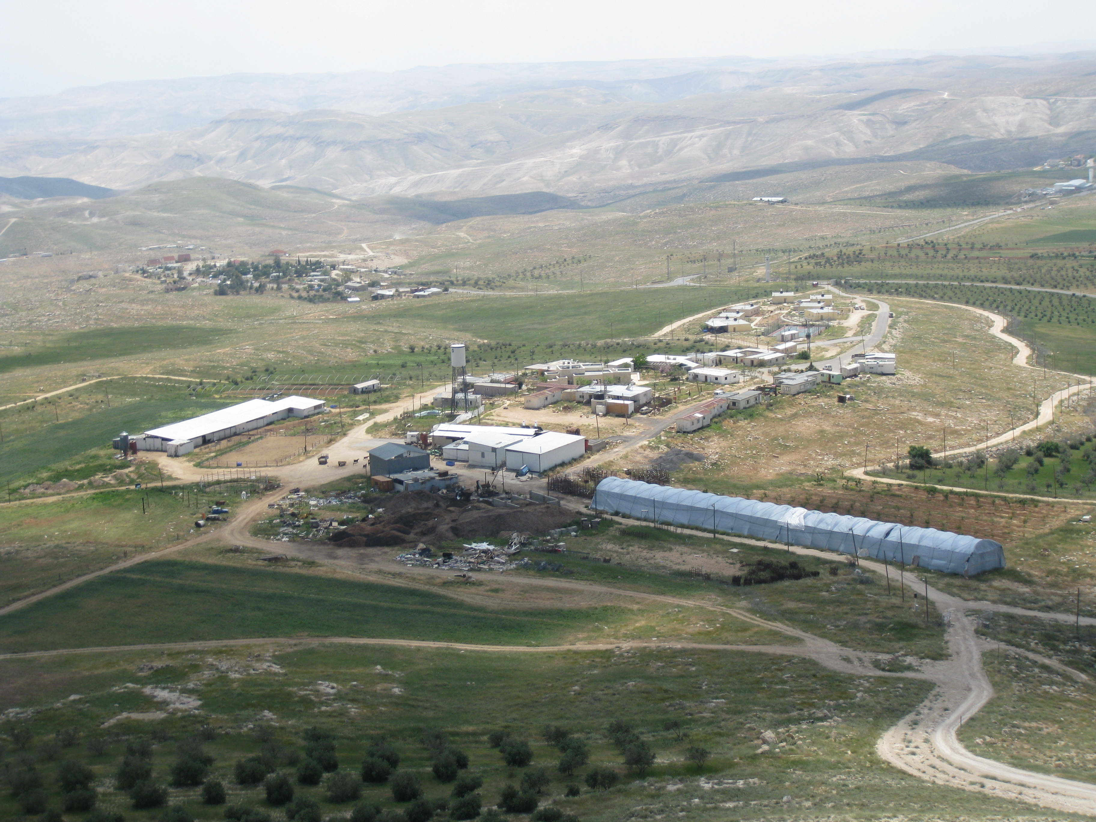 Views from Herodion (Herodyon, Herodium) - Sdeh Bar Farm and MaAle Rehavaam מבט מהרודיון - חוות שדה בר ומעלה רחבעם